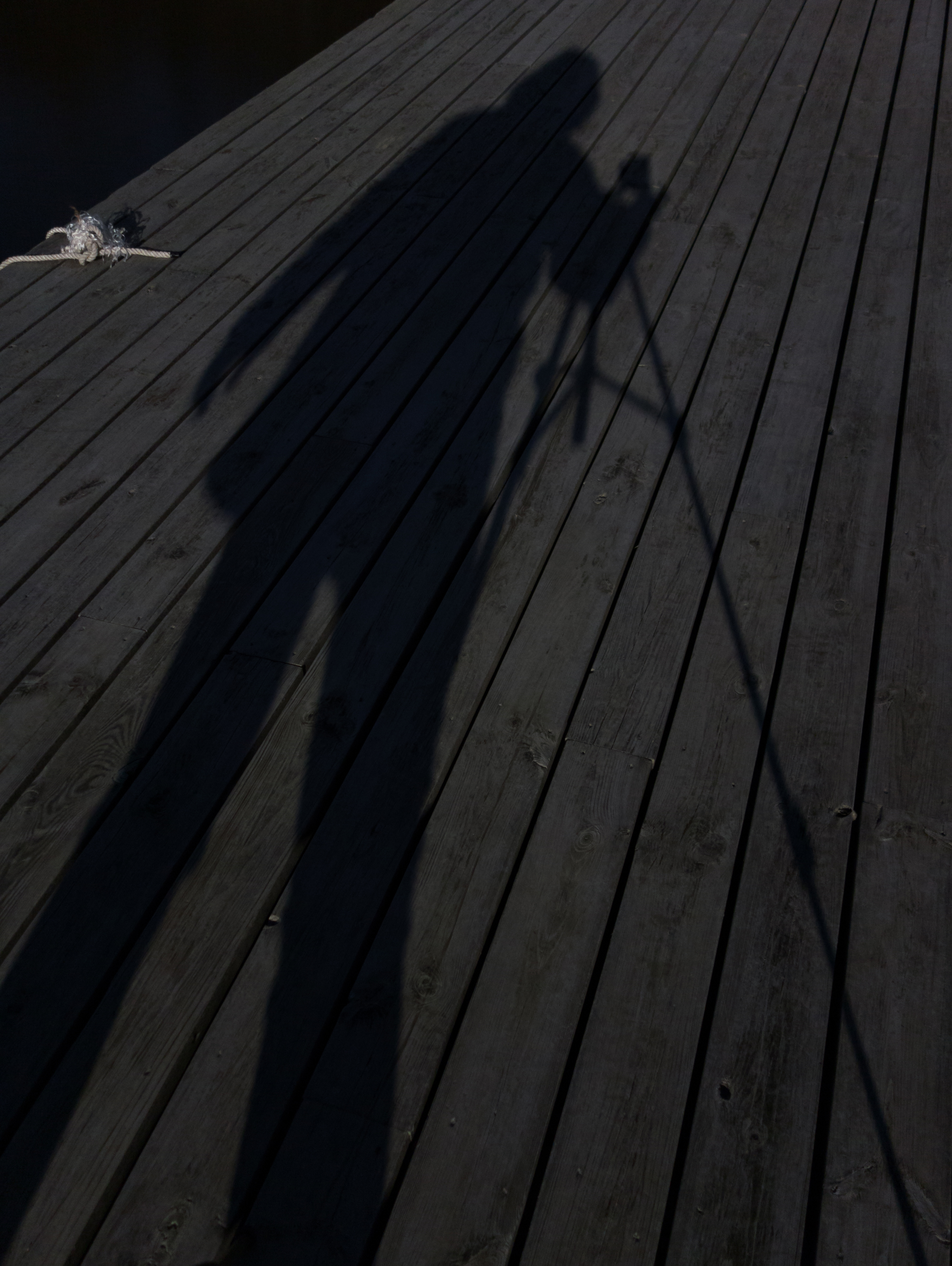 A moonlight shadow of User:W.carter on a jetty at Holma Boat Club by Gullmarn fjord, Lysekil Municipality, Sweden. The moon was almost full, 97.2%, with no clouds obscuring it.